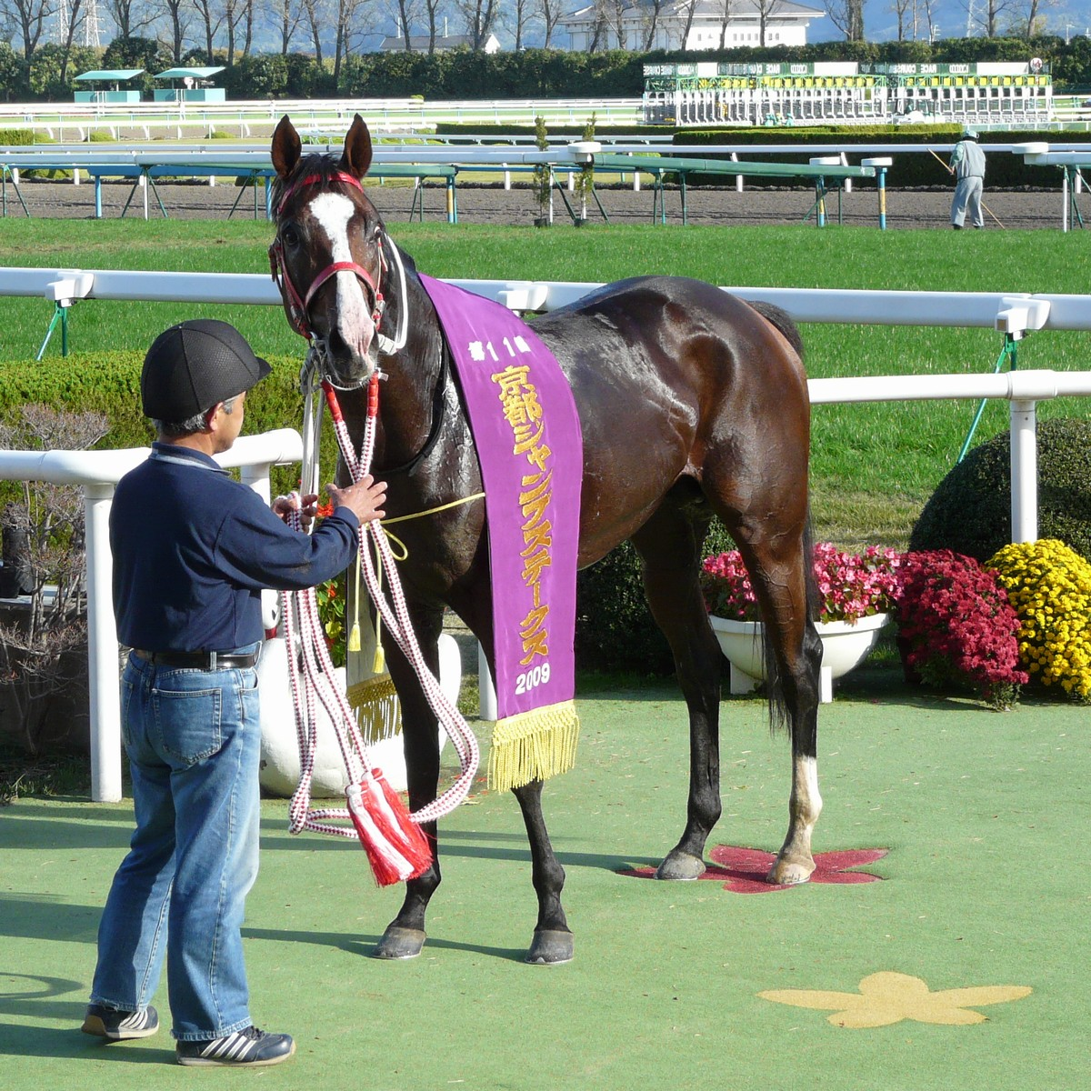 A-shin-DS20091114